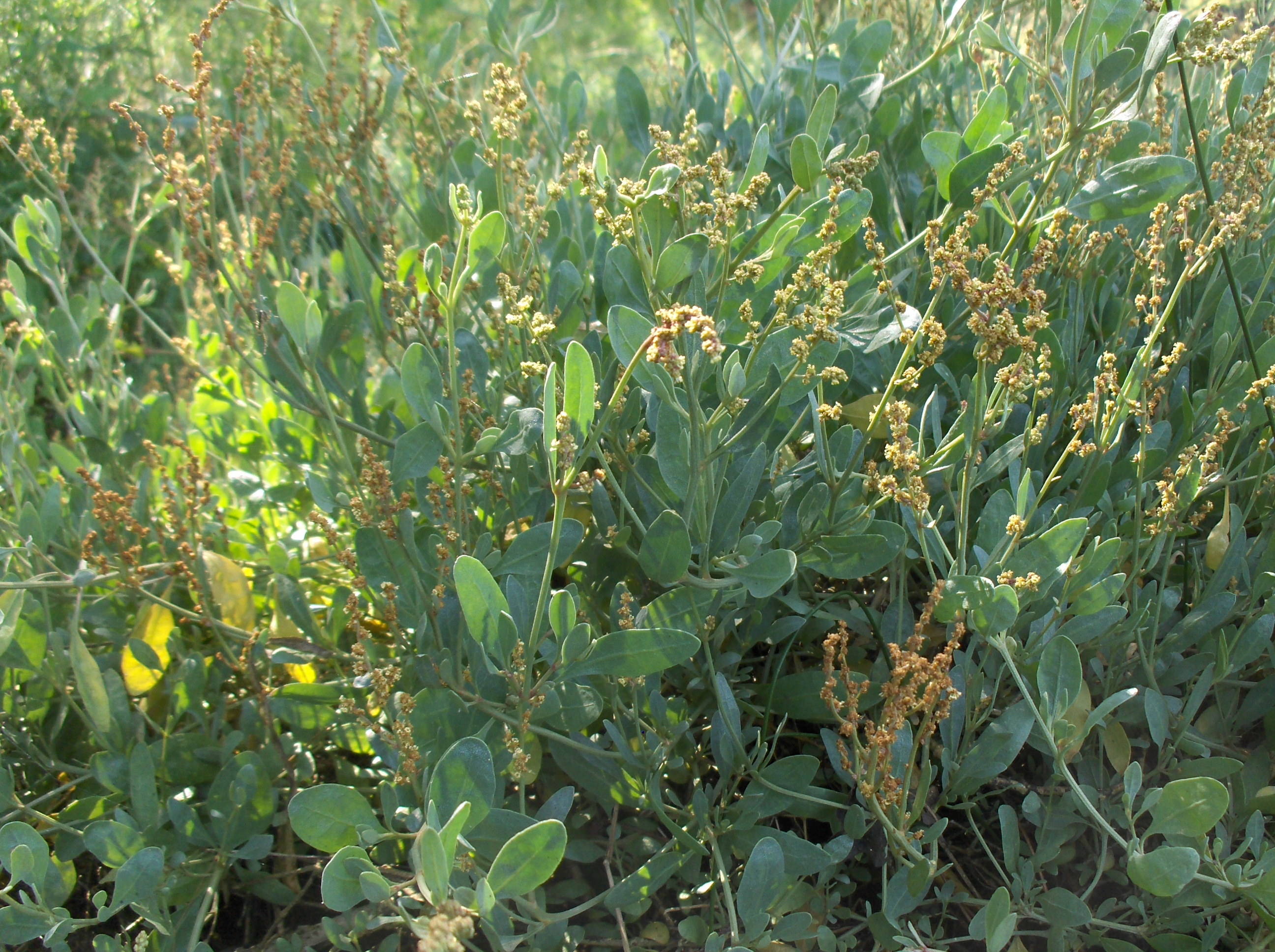 Sea purslane, near Tregarvan, Finistère, France